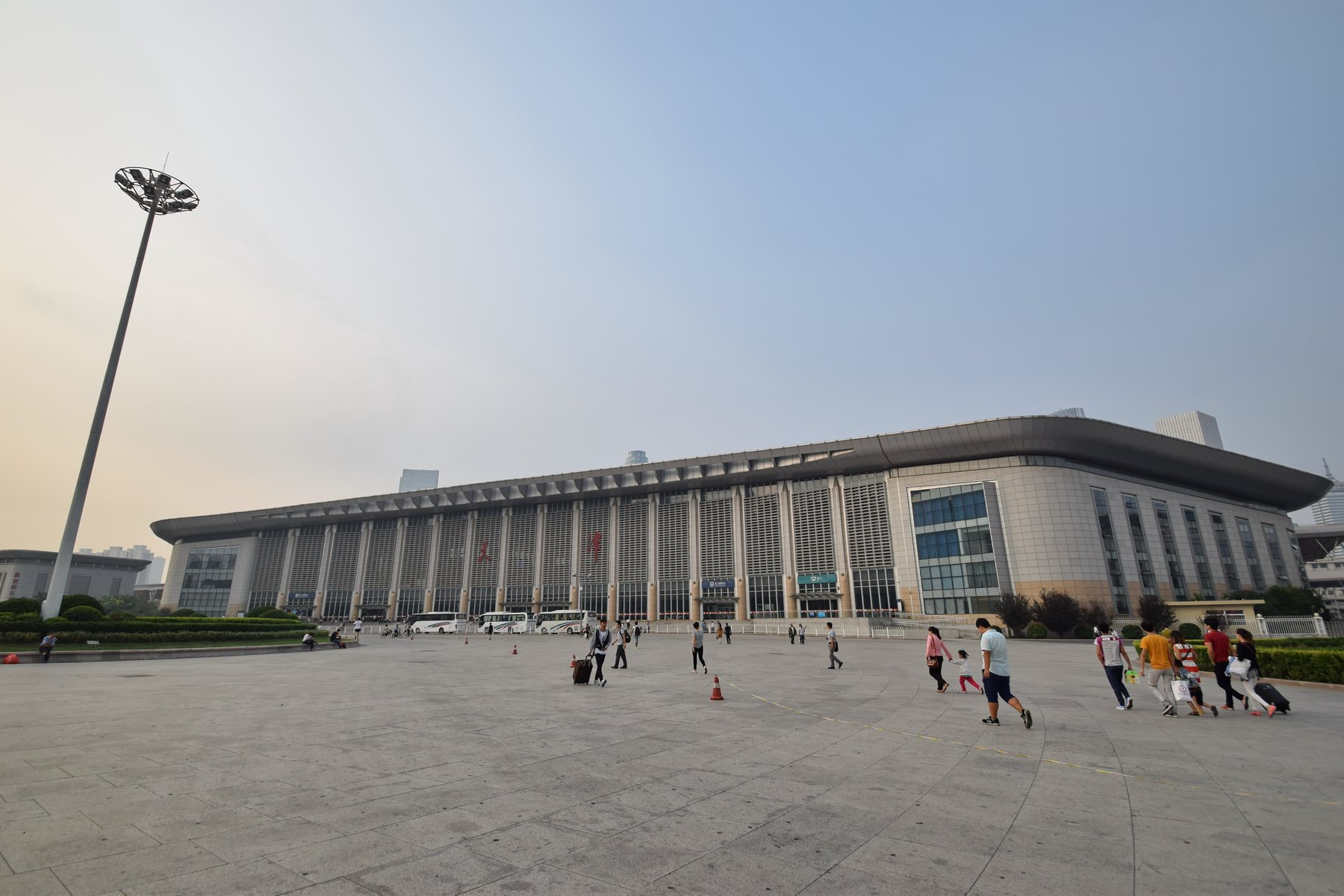 Back Square of Tianjin Railway Station